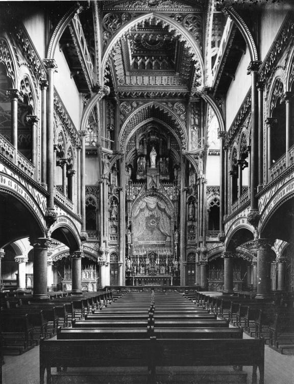 Photograph, Interior Sacred Heart Chapel, Notre Dame Church, Montreal, QC, 1892-94, Wm. Notman & Son, Silver salts on glass - Gelatin dry plate process - 25 x 20 cm